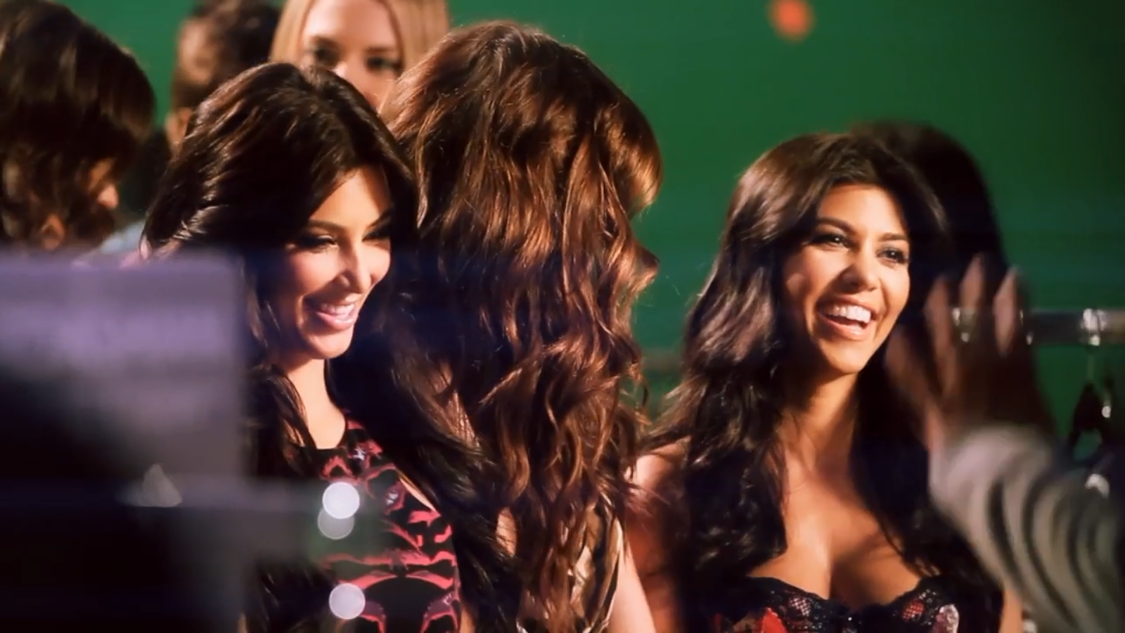 The Kardashian's tell us about their latest collection.